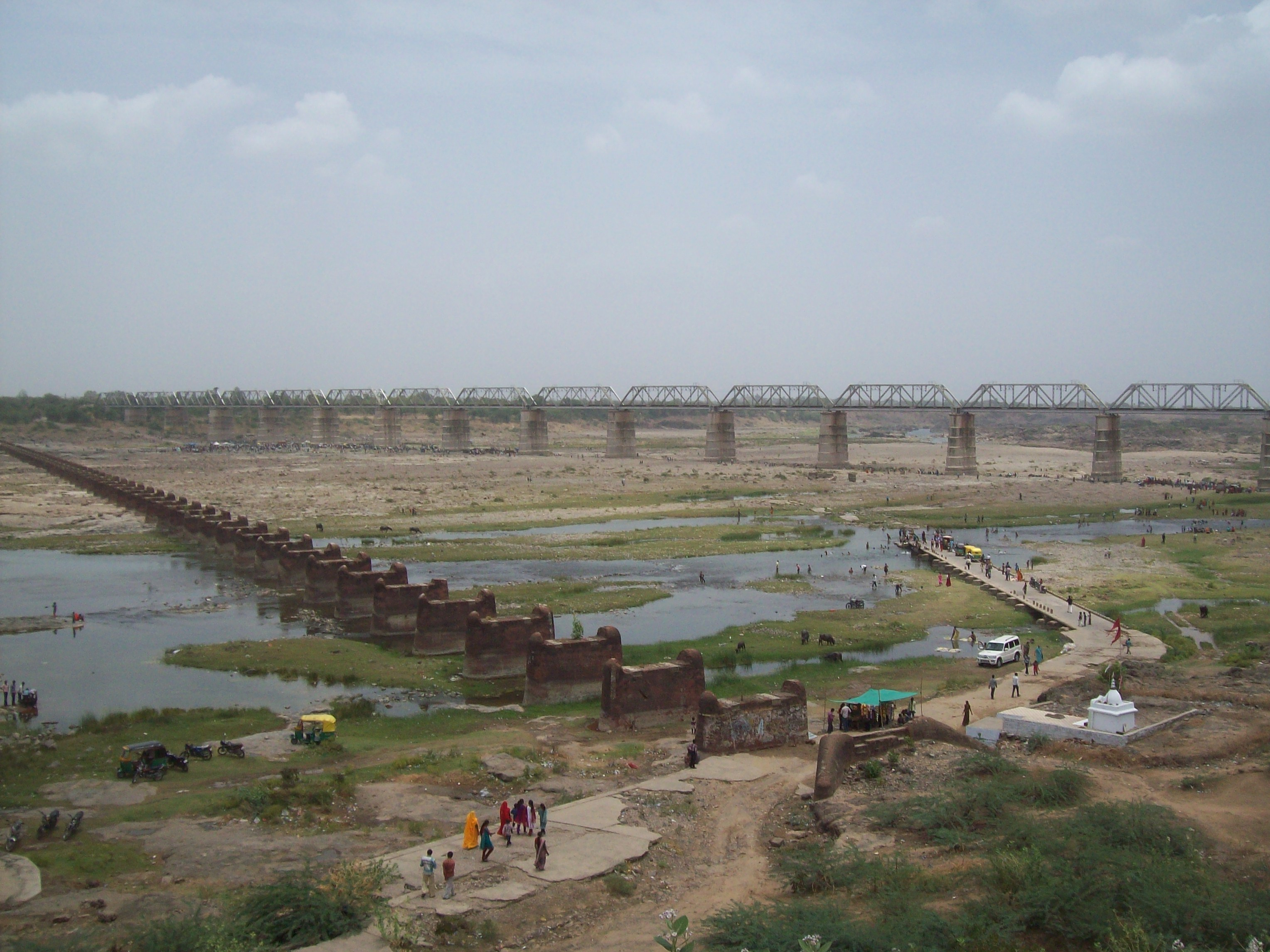 MAHI RAILWAY BRIDGE SEVALIYA-5